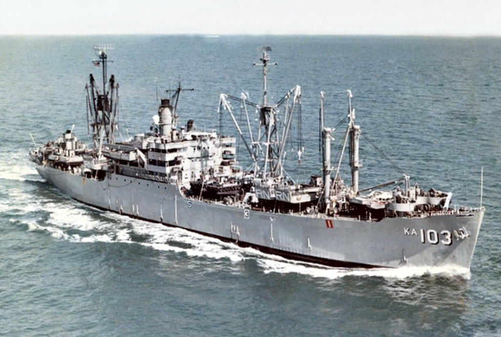 Tolland class attack cargo ship USS Rankin (AKA-103)